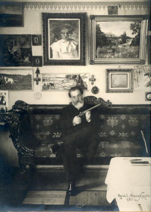 Evgeny Opochinin